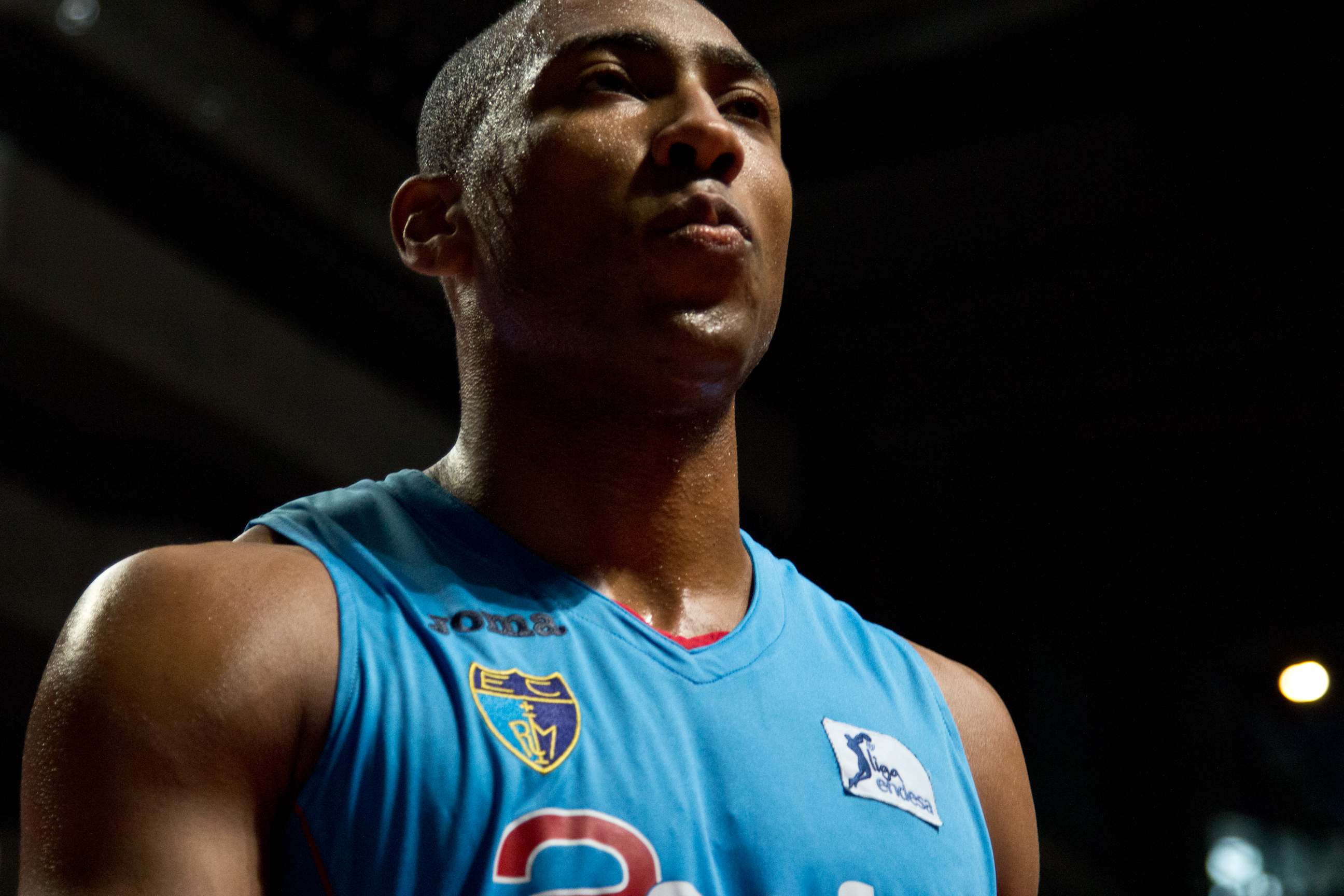 Jayson Granger. Game Estudiantes vs Unicaja Málaga.